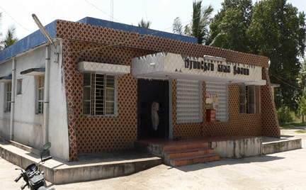 Brahmadesam Police Station located at Cheyyar Taluk of Tiruvanamalai District, Tamil Nadu (India)